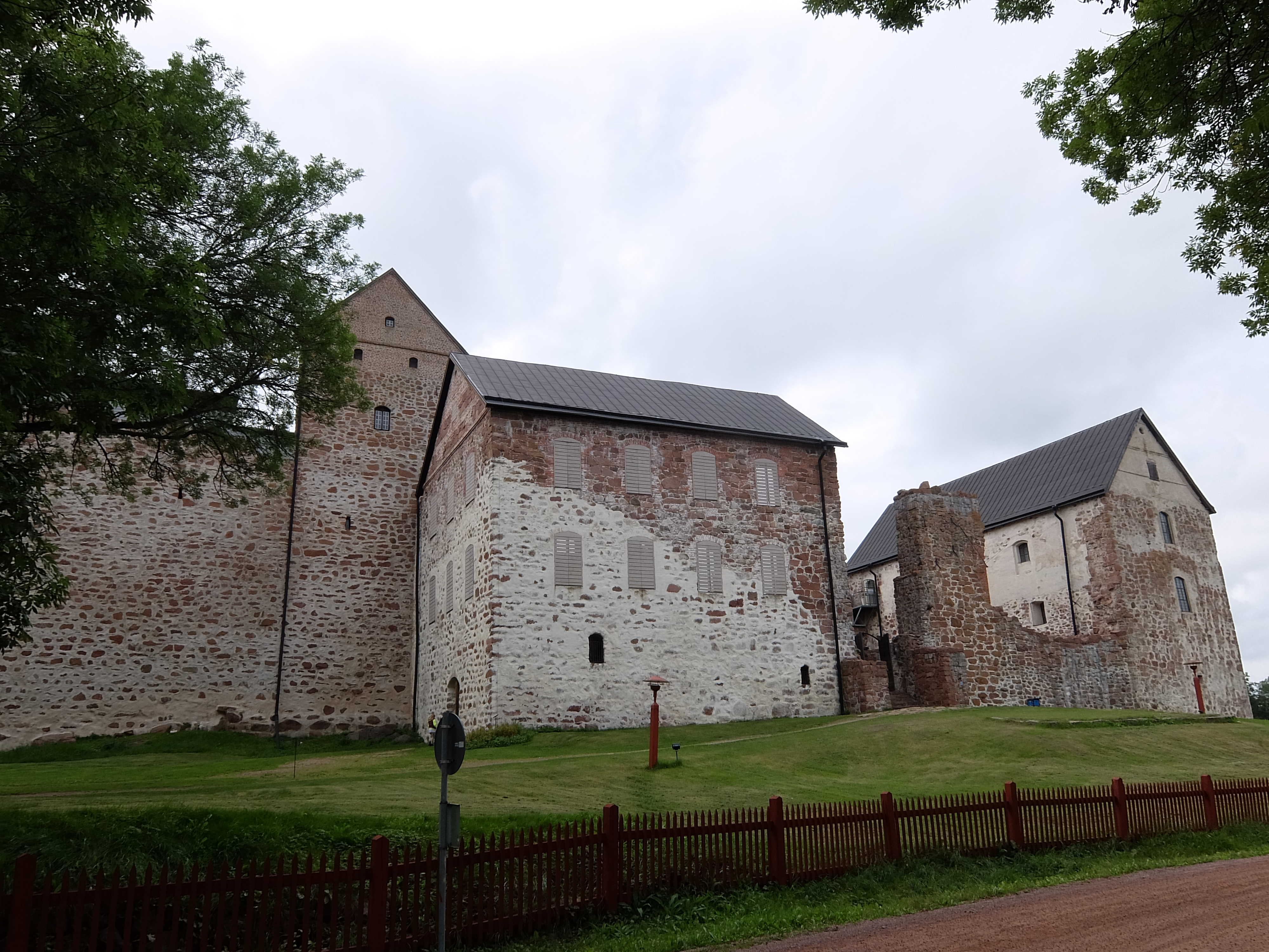 The castle of Kastelholm in Sund, Åland, Finland